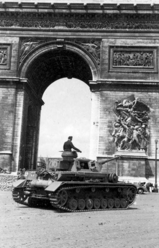 Title: Paris, Panzer IV der LSSAH vor Triumphbogen Extra information: Frankreich, Paris.- Parade der Waffen-SS-Division "LSSAH" (Leibstandarte-SS Adolf Hitler), Panzer IV vor dem Triumphbogen (Arc de Triomphe); SS-PK Factual corrections and alternative descriptions are encouraged separately from the original description. Additionally errors can be reported at this page to inform the Bundesarchiv. Original historic description